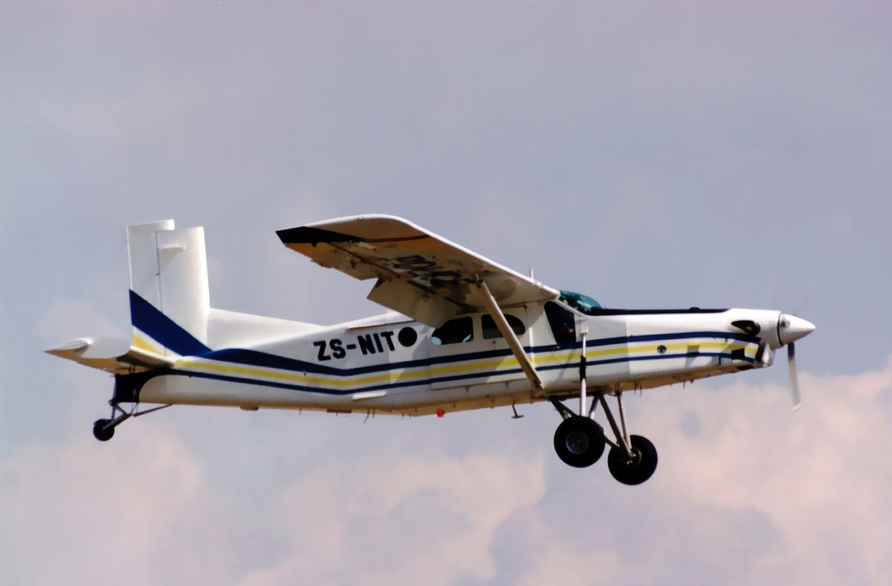 South African Police Pilatus PC-6B2-H4 ZS-NIT